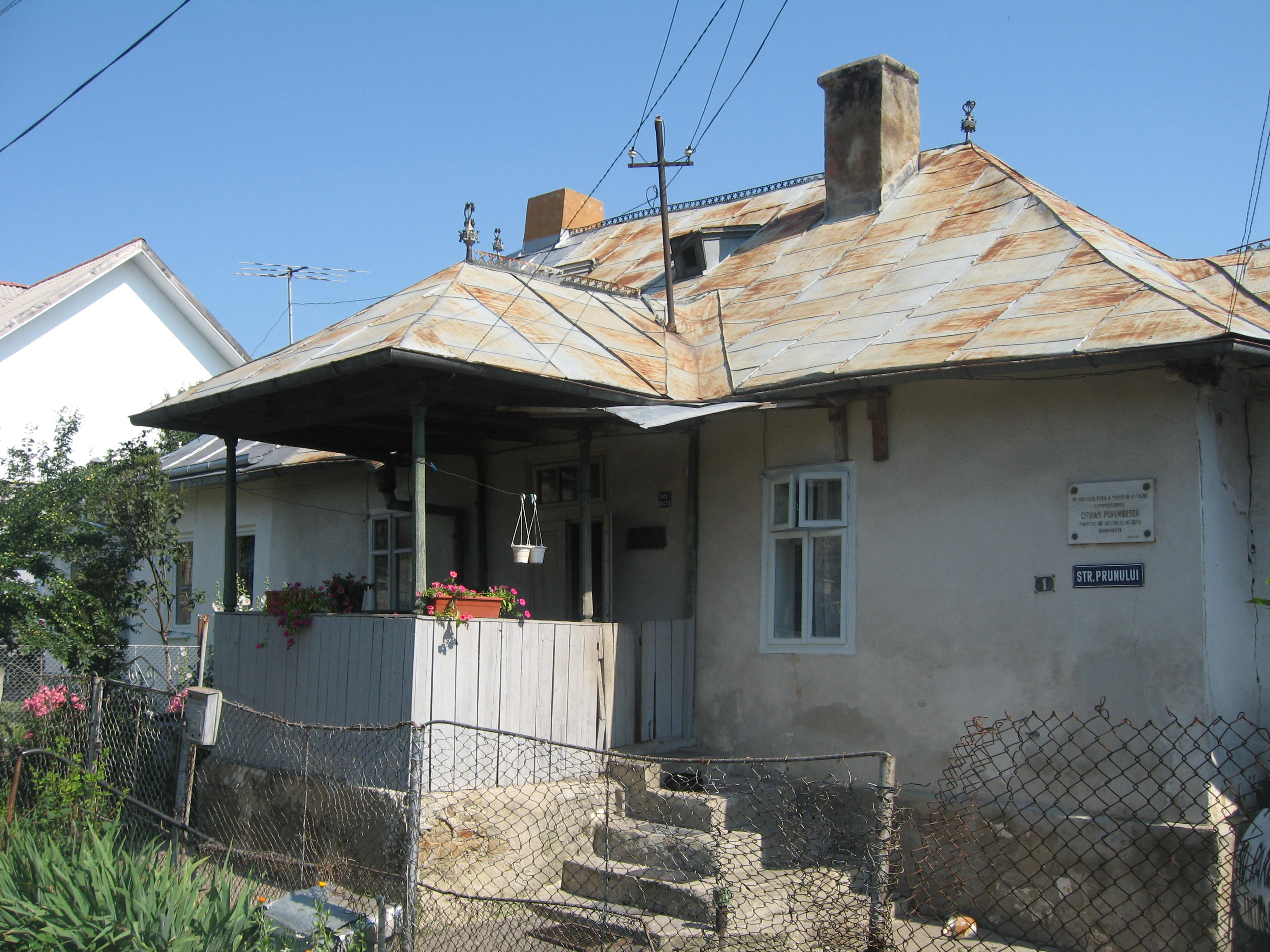 Ciprian Porumbescu House in Suceava (Prunului Street, 1).